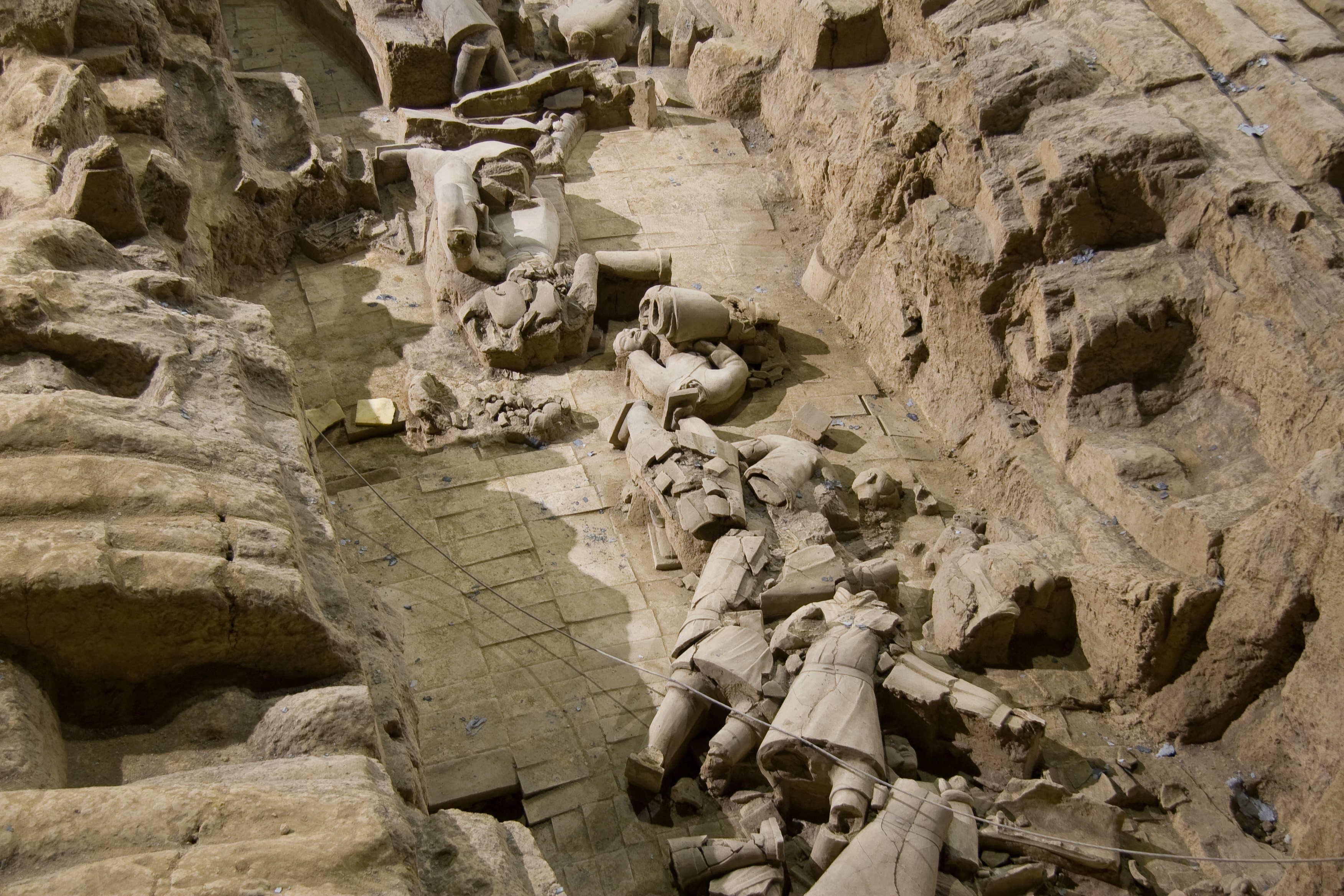 Terracotta Army - in Xi'an, China